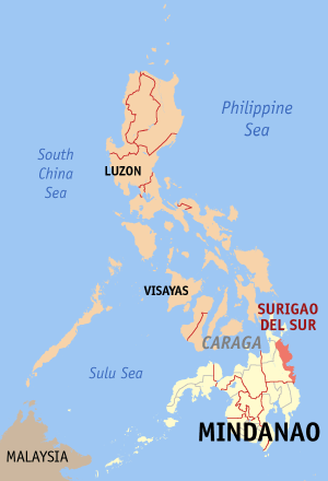 Map of the Philippines showing the location of Surigao del Sur